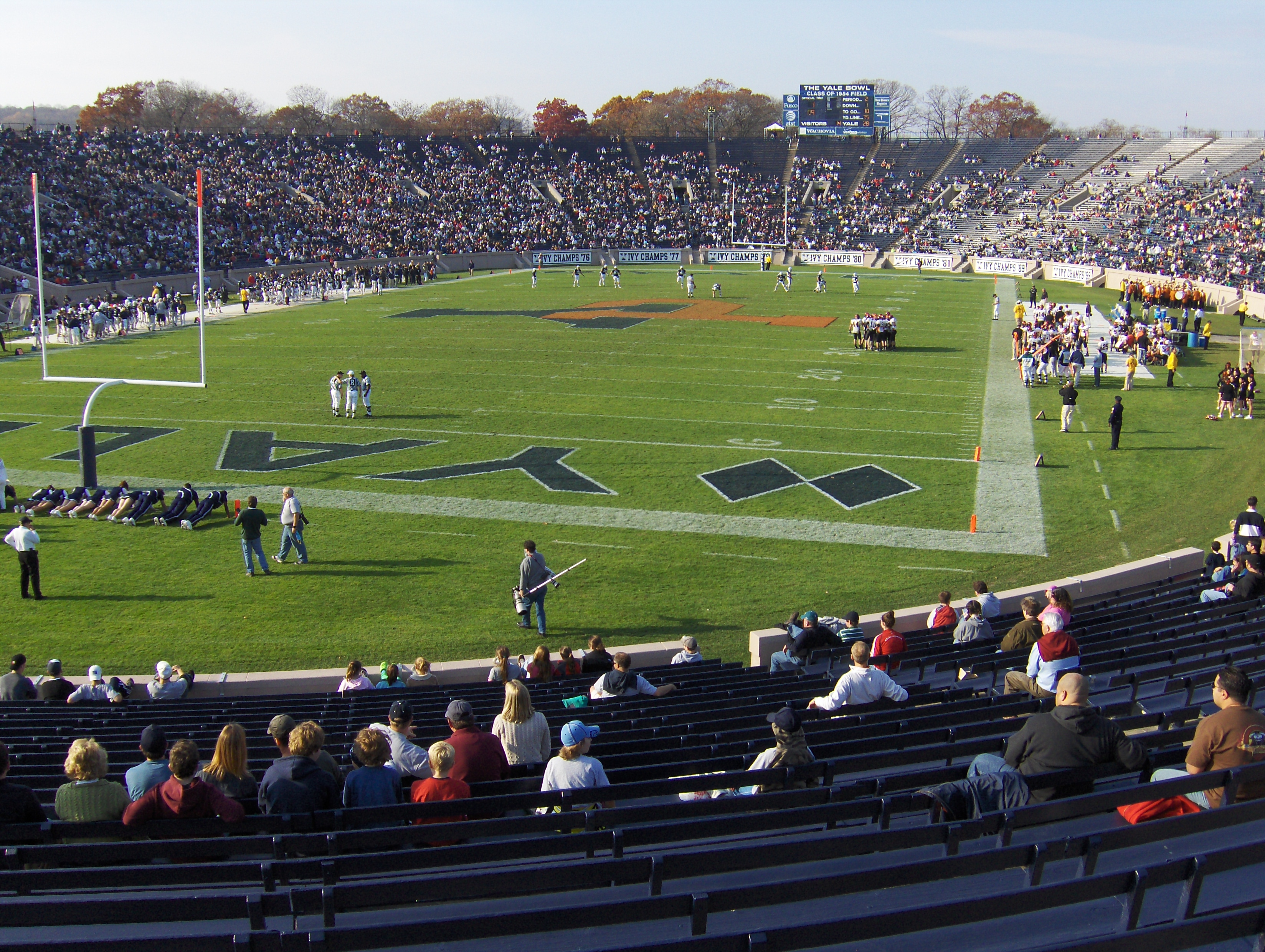 The Yale Bowl holds about 70,000. It looks empty because there were "only" about 44,000 spectators there.